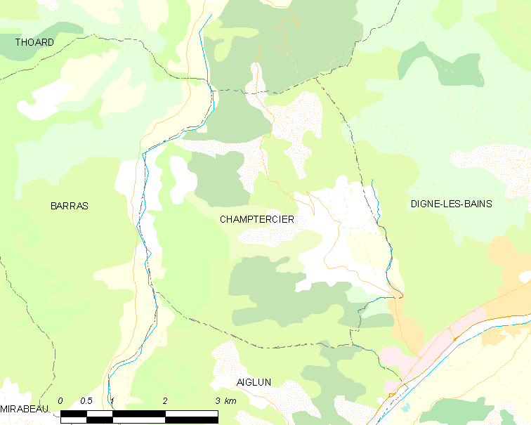 Map commune FR insee code 04047.png Légende